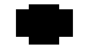 This image is the before image for an example distance transform.